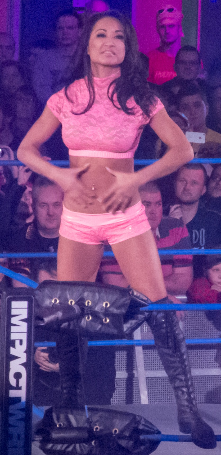 Gail Kim at the Impact! TV Tapings in Wembley, England on January 26, 2013.